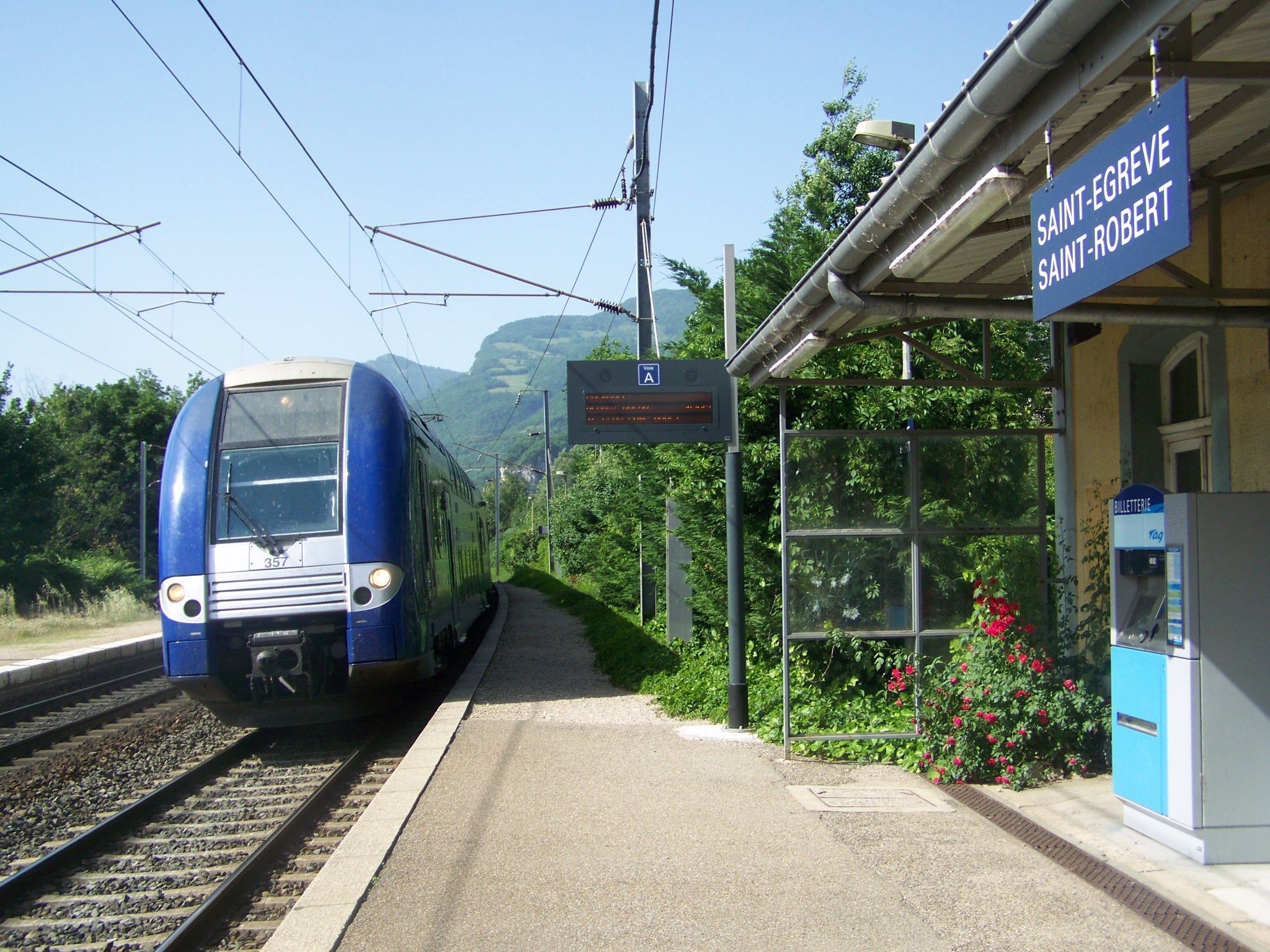 A French regional train coming from Rives and bound for Grenoble is entering the little station of St-Égrève-St-Robert in Isère.